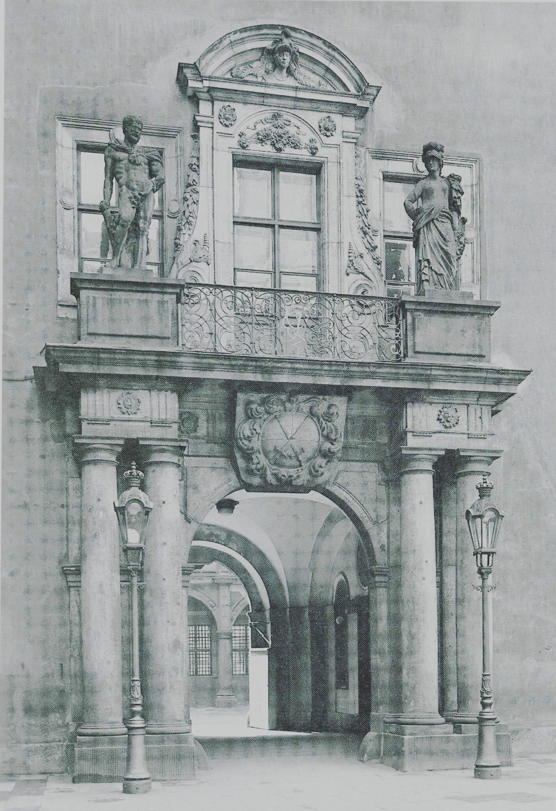 Portal grosser Schlosshof Residenzschloss Dresden